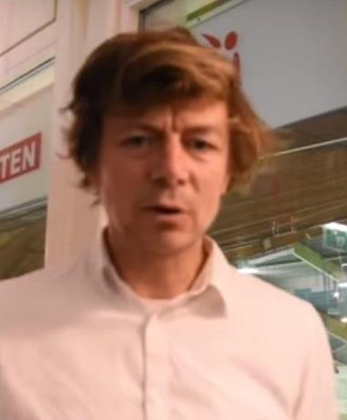 Dutch speed skater Jeroen Straathof in 2017